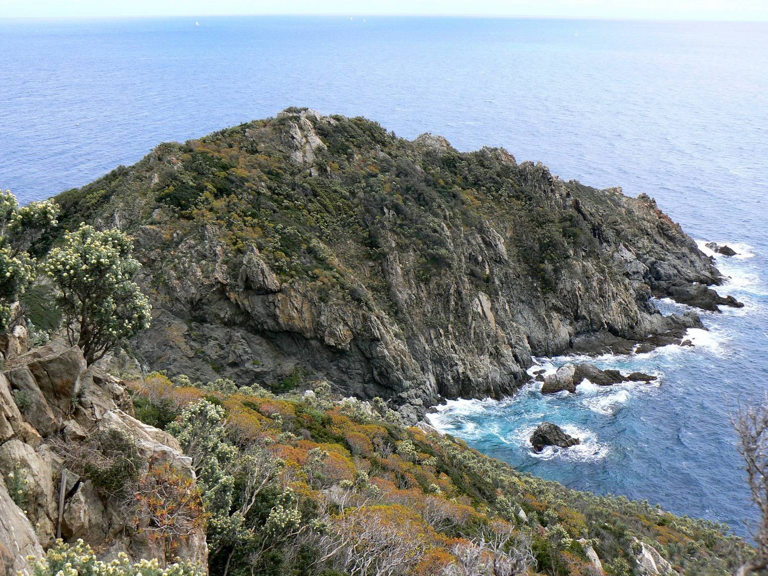 Cap Lardier, Var, France